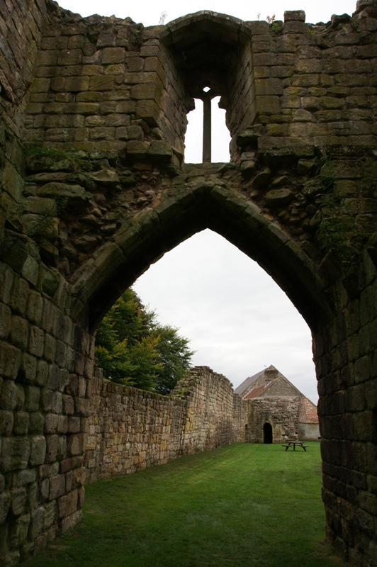 Etal Castle, Northumberland, England. From within the gatehouse looking west.